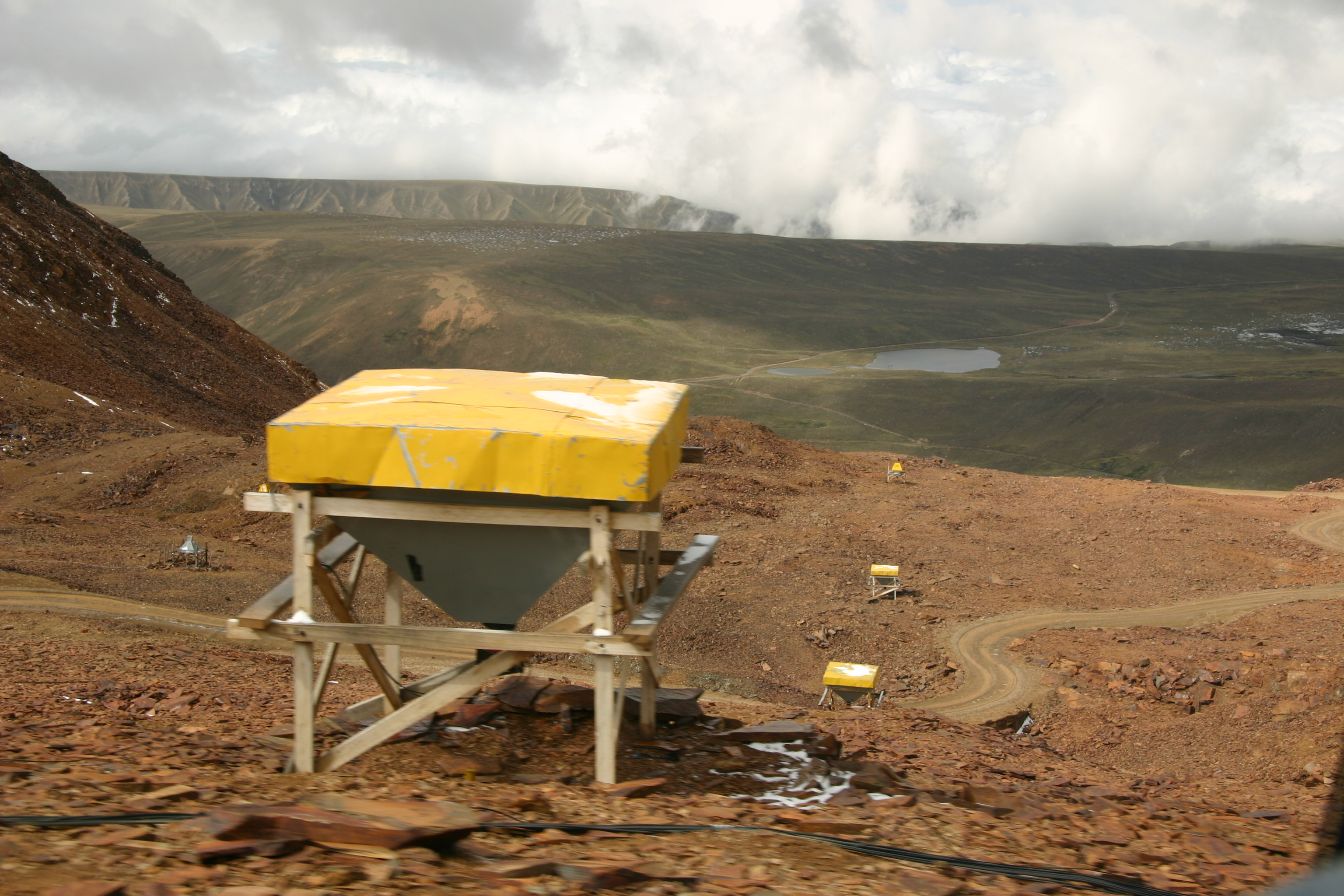 Chacaltaya Astrophysical Observatory, a detector array for cosmic particles